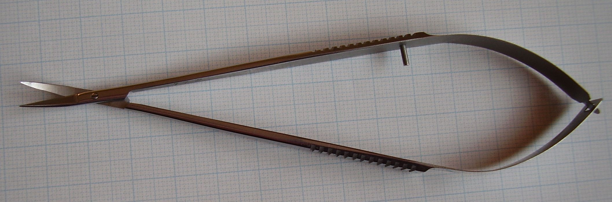 Noyes Iris Scissor curved scissor 9,0 cm